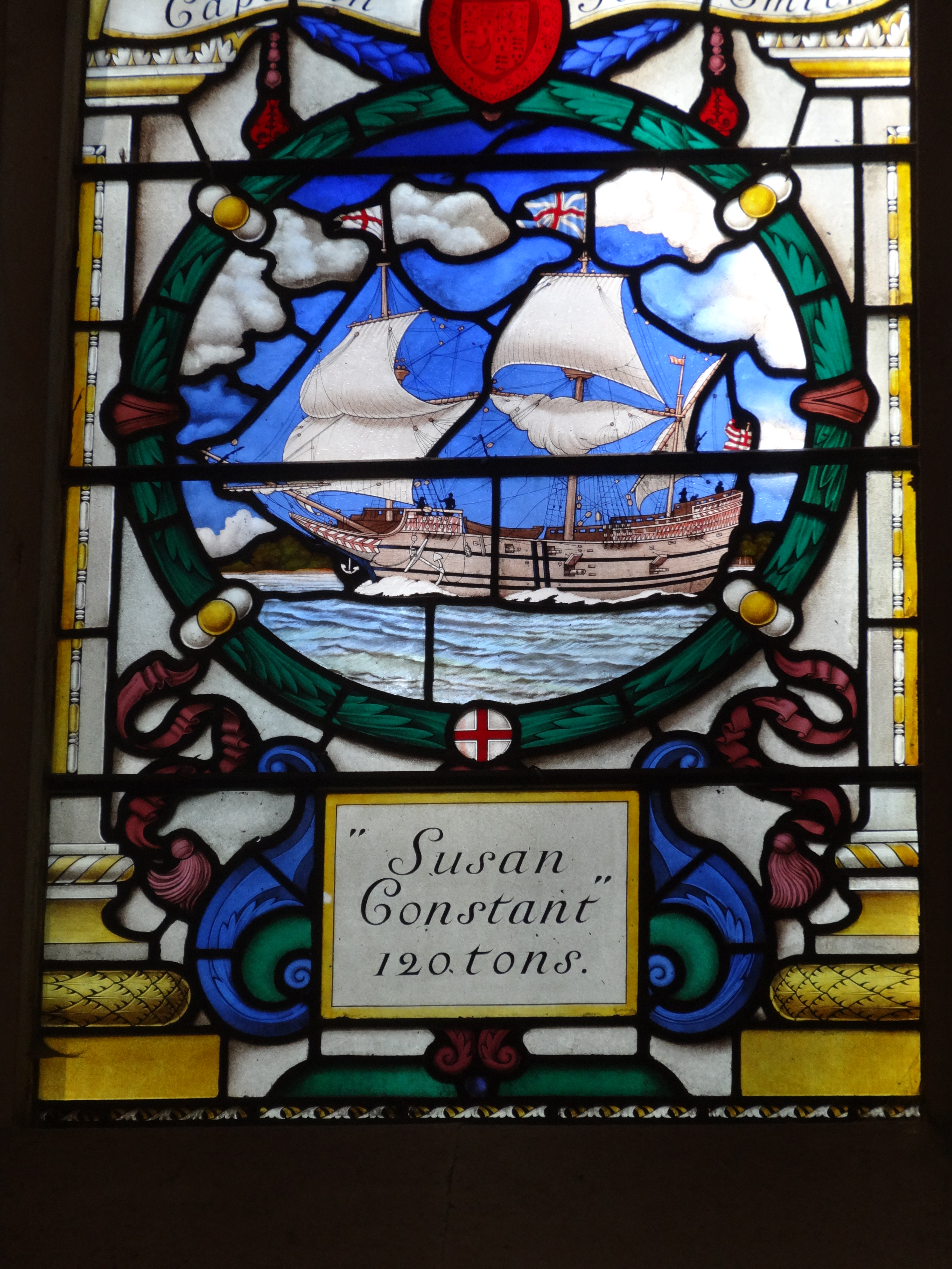 Stained glass windows in St Sepulchre-without-Newgate